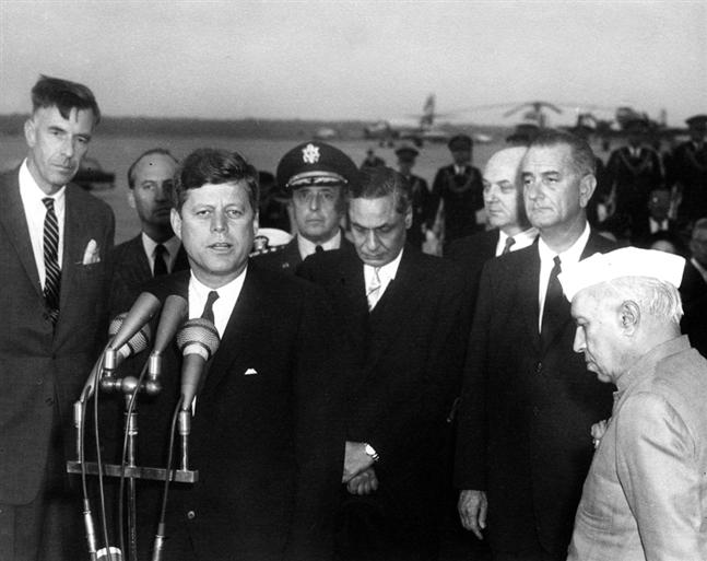 Arrival ceremonies for Prime Minister of India. L-R: John K. Galbraith, U. S. Ambassador to India; Angier Biddle Duke, U. S. Chief of Protocol; President Kennedy; General Lyman Lemnitzer; Braj Kumar Nehru, Ambassador of India to the United States; Secretary of State Dean Rusk; Vice President Lyndon B. Johnson; Prime Minister Jawaharlal Nehru. Andrews Air Force Base, Maryland. Photograph by Abbie Rowe, National Park Service, in the John F. Kennedy Presidential Library and Museum, Boston.